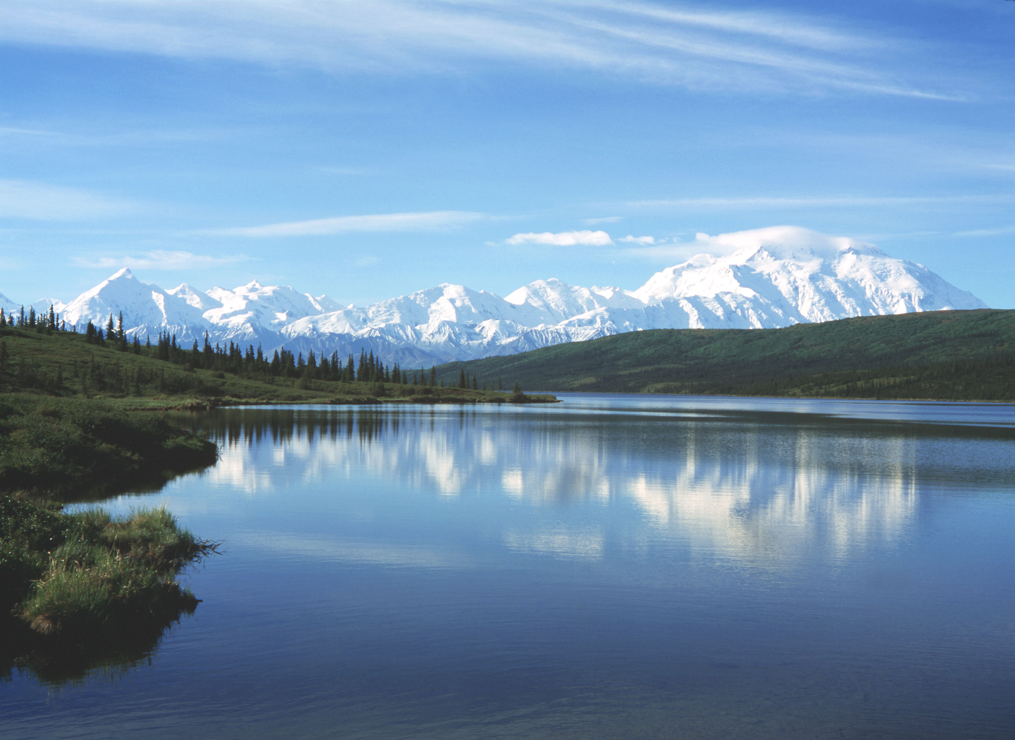 Mount McKinley and Wonder Lake, Denali National Park, Alaska.